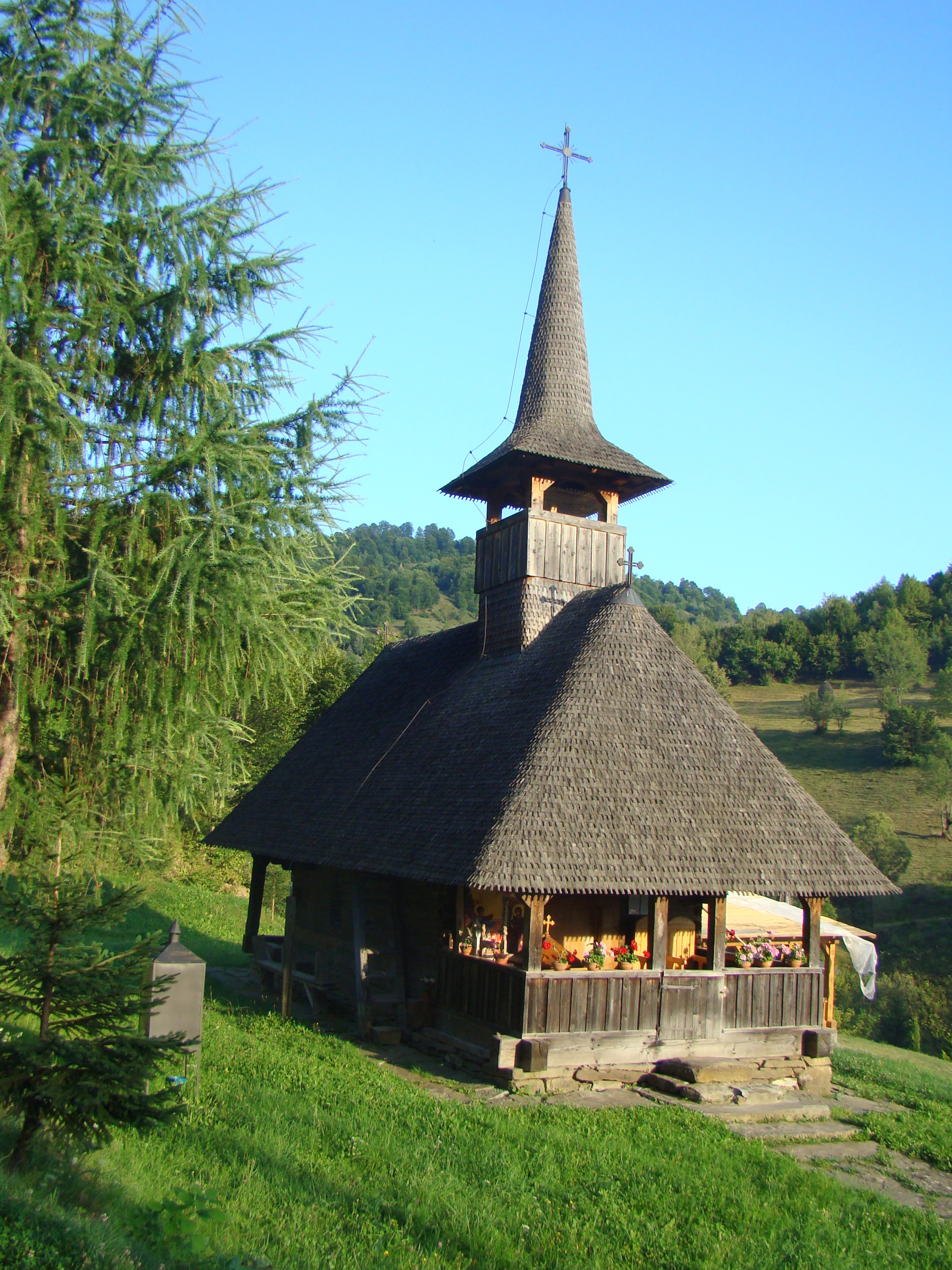 Wooden church in Cormaia monastery, Bistrița-Năsăud county, Romania